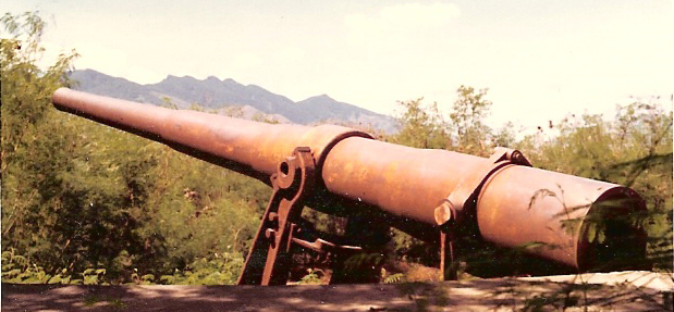 Buffington-Crozier carriage details of 6-inch disappearing gun at Fort Wint, Subic Bay, Luzon, Philippine Islands